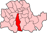 Map of the Metropolitan borough of Lambeth, formerCounty of London.